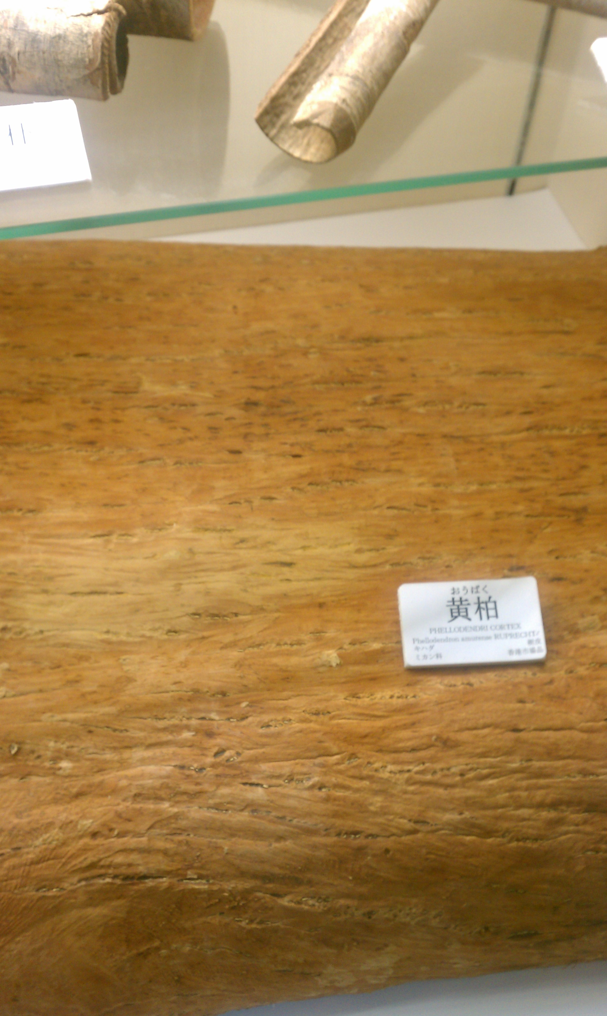 species of tree in the family Rutaceae